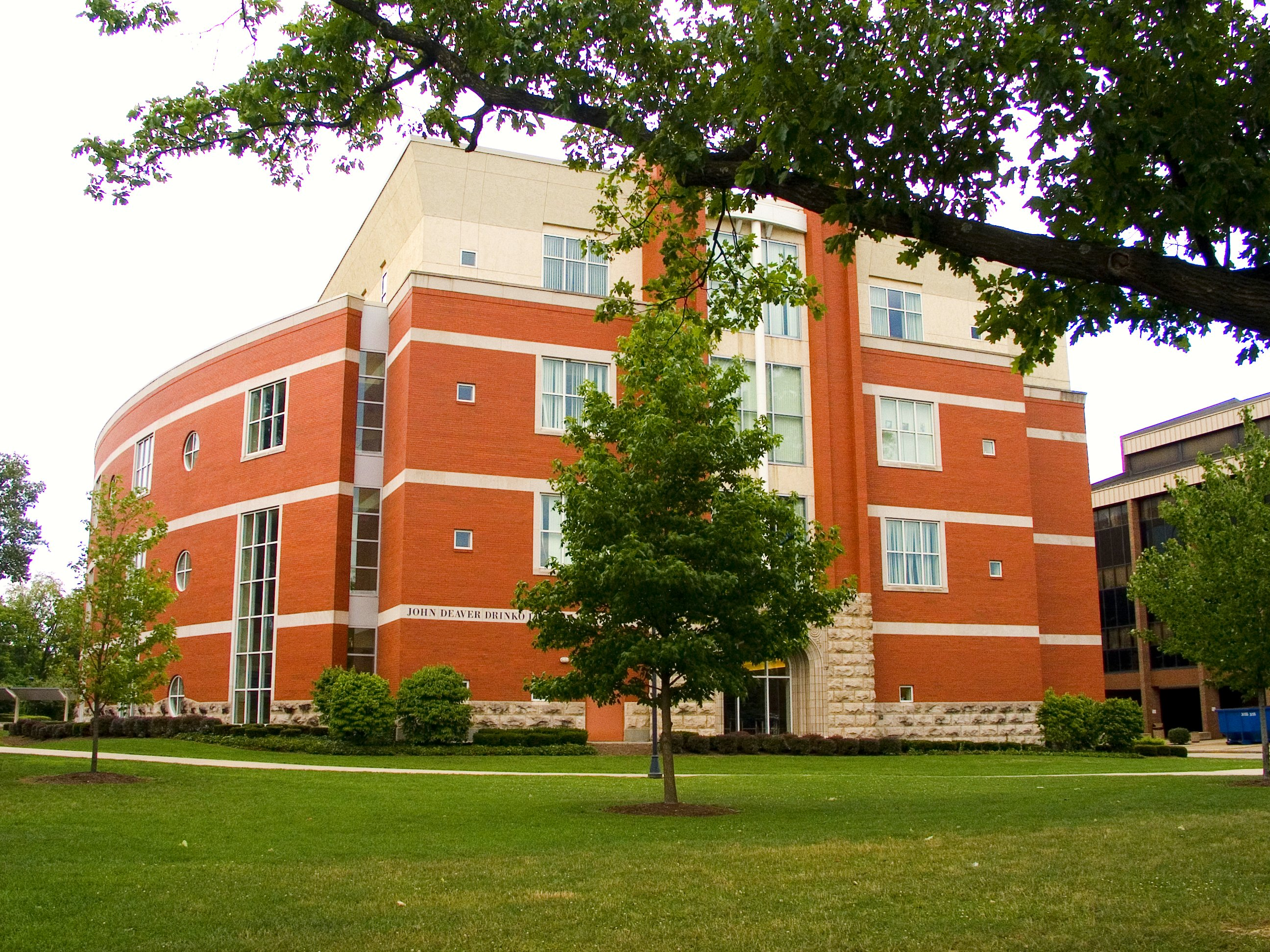 The John Deaver Drinko Library on campus at Marshall library, opened in 1998